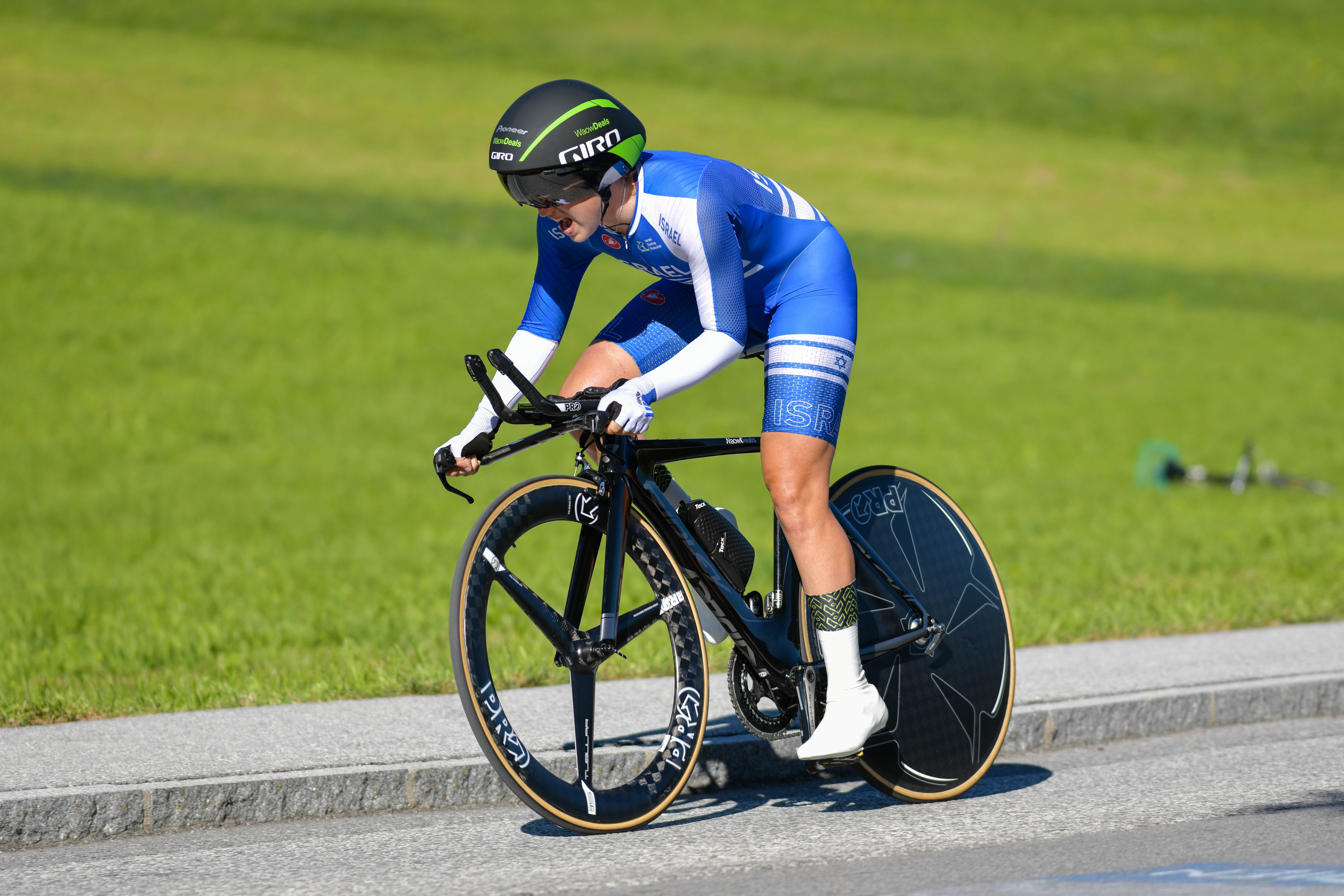 2018 UCI Road World Championships Innsbruck/Tirol Women Elite Individual Time Trial. Picture shows: Rotem Gafinovitz of Israel